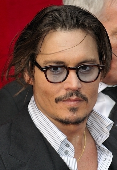 Johnny Depp during the Paris premiere of Public Enemies at the cinema UGC Normandie.